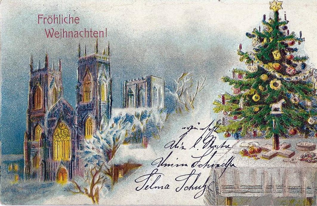 Christmas greetings 1905 from Hamburg (Germany), relief print, front.